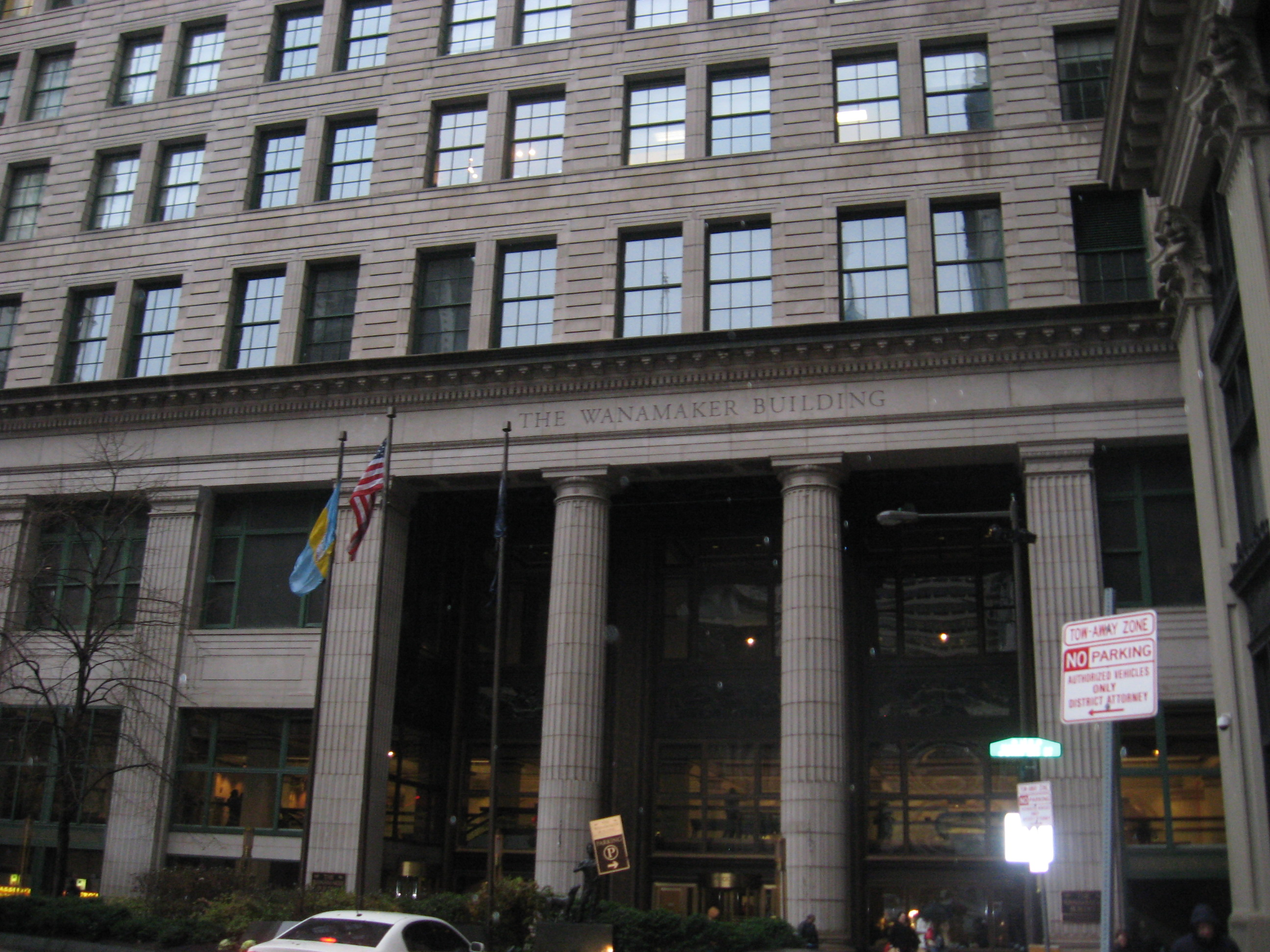 Wanamaker Building, Philadelphia, PA, USA